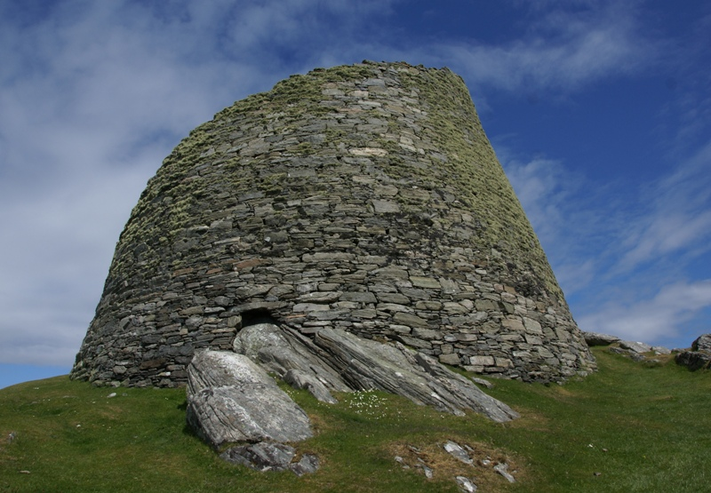 Dun Carloway, Lewis, Scotland - from the south east